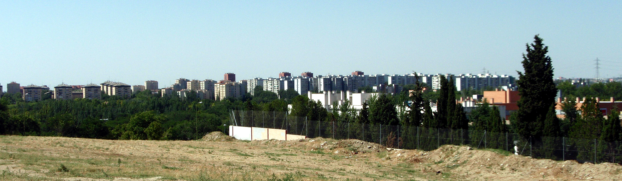 Orcasitas Quarter seen from the northern boundary of the park of Pradolongo.